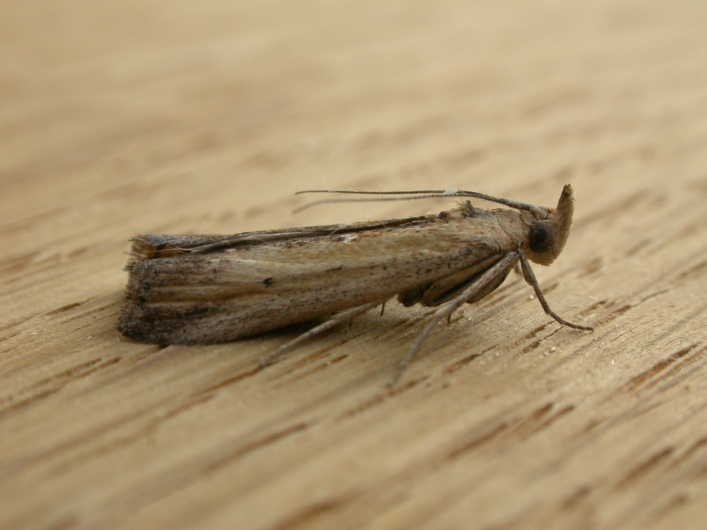 Morosaphycita oculiferella (Metrick, 1879), to MV light, Aranda, ACT, 19/20 March 2009